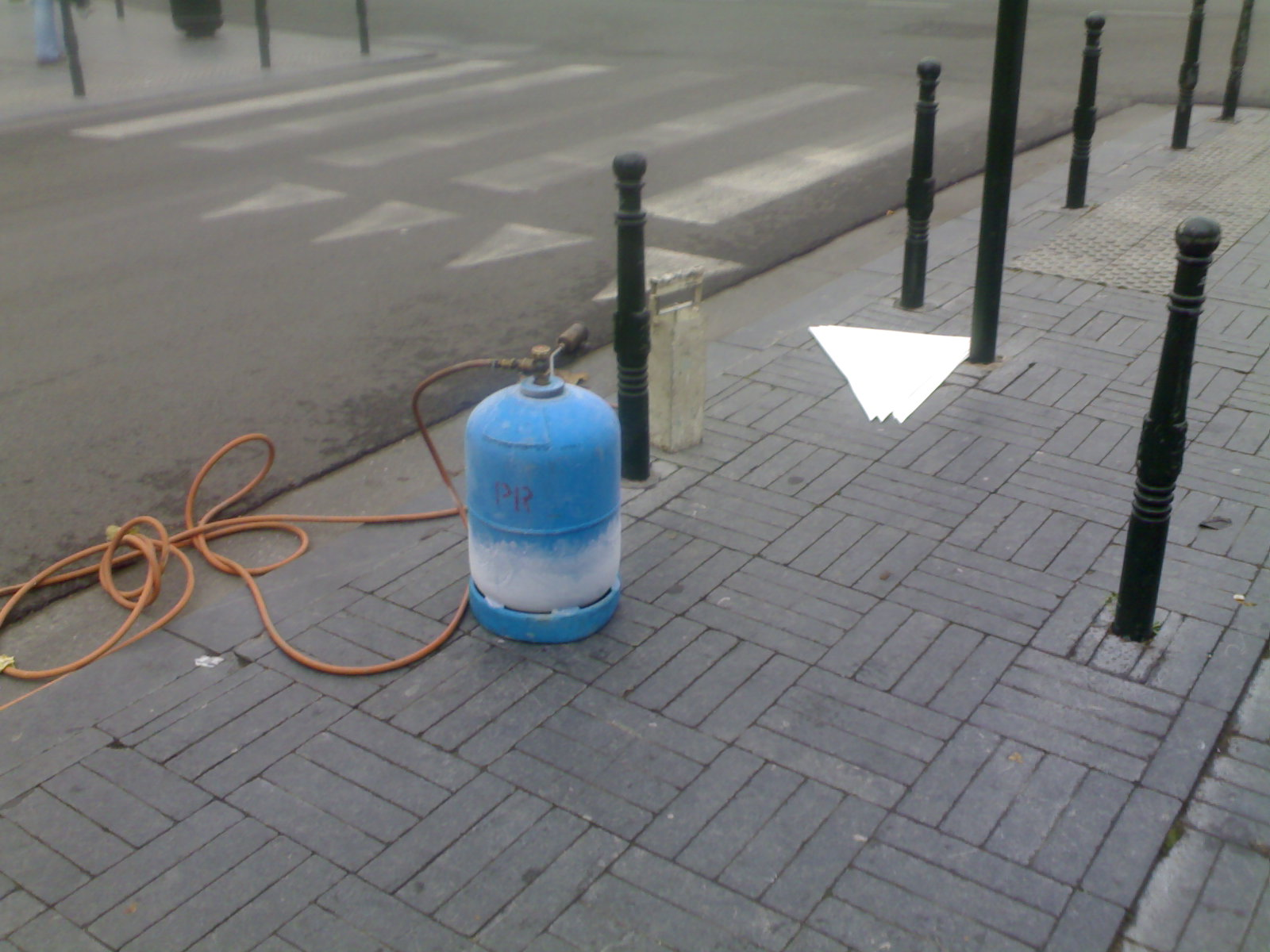 Plastic road markings about to be applied to a road surface with a blow torch in Brussels, Belgium